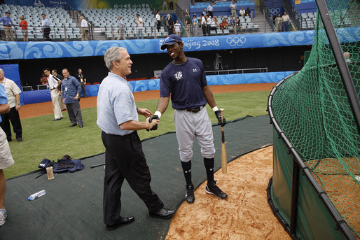 President George W. Bush meets with U.S. Olympic men's baseball team player Dexter Fowler of Alpharetta, Ga., while attending a practice game between the U.S. and the Chinese Olympic men's baseball teams Monday, Aug. 11, 2008, at the 2008 Summer Olympic Games in Beijing.